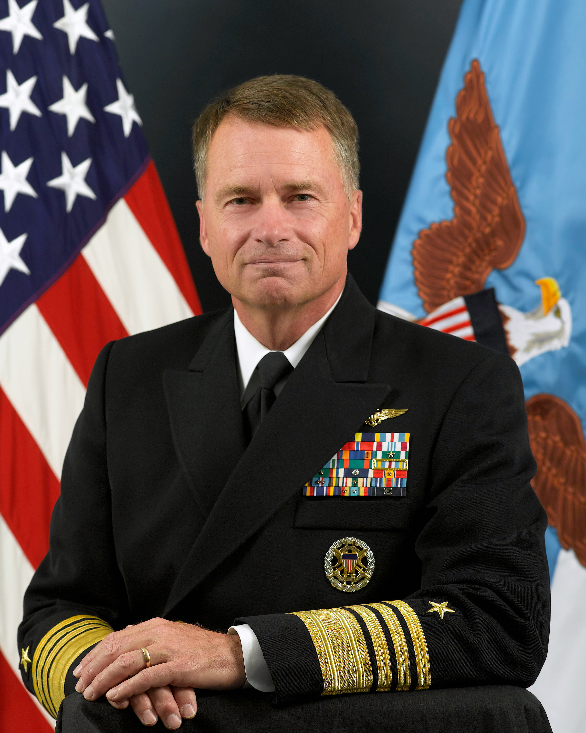 Admiral James A. Winnefeld, Jr, USN9th Vice Chairman of the Joint Chiefs of Staff